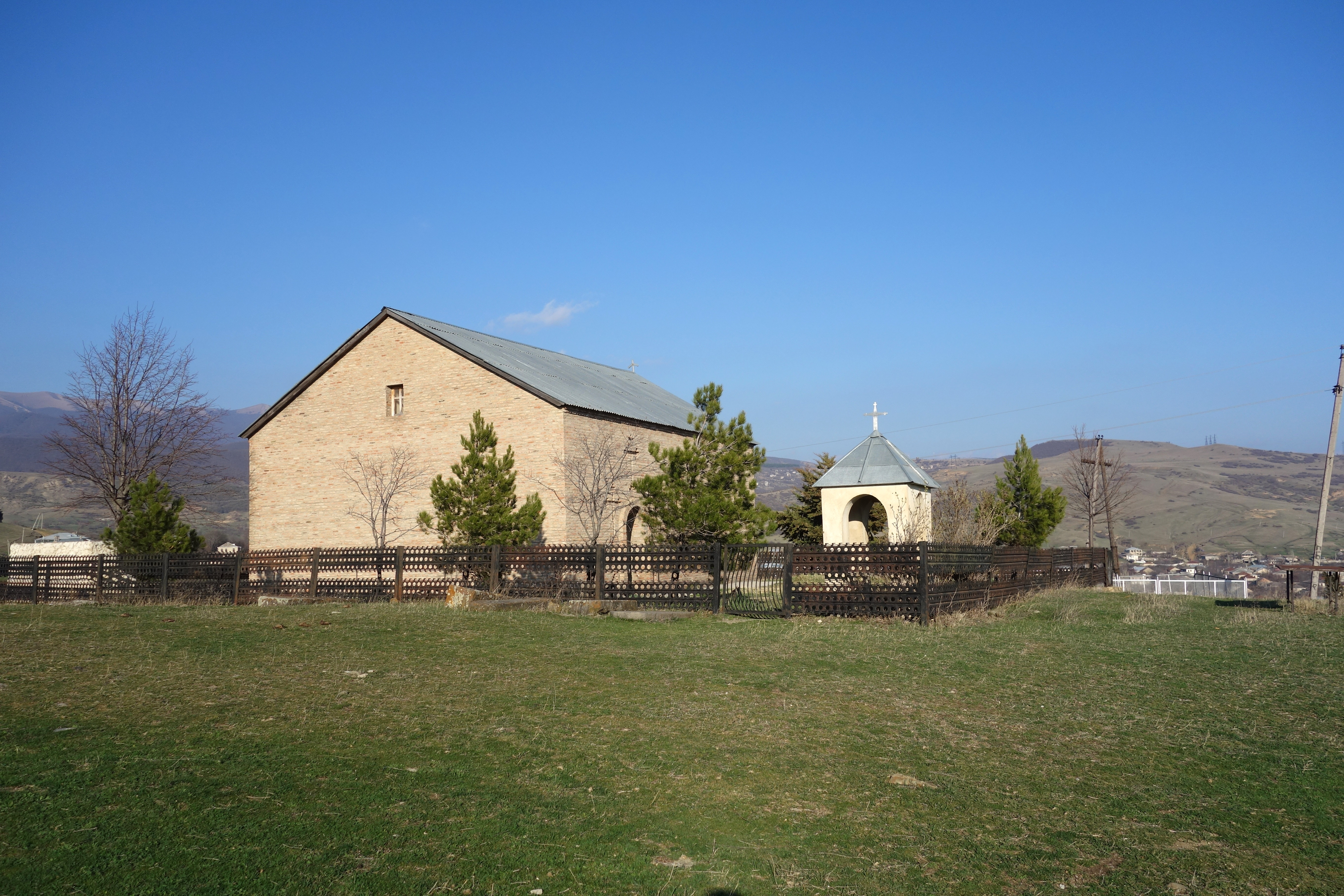 St. Georgi Church of Borkiljvari, Martkopi, Kvemo Kartli, Georgia